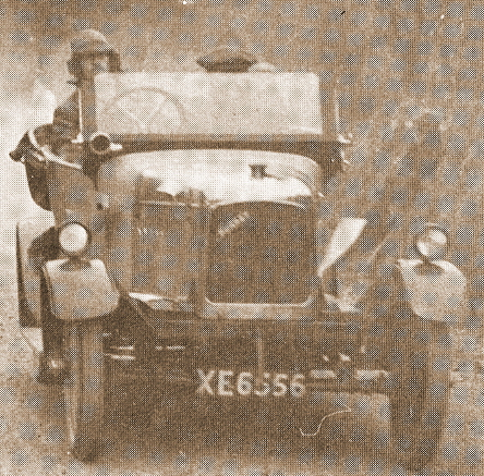 1923 Surrey 10.8 hp